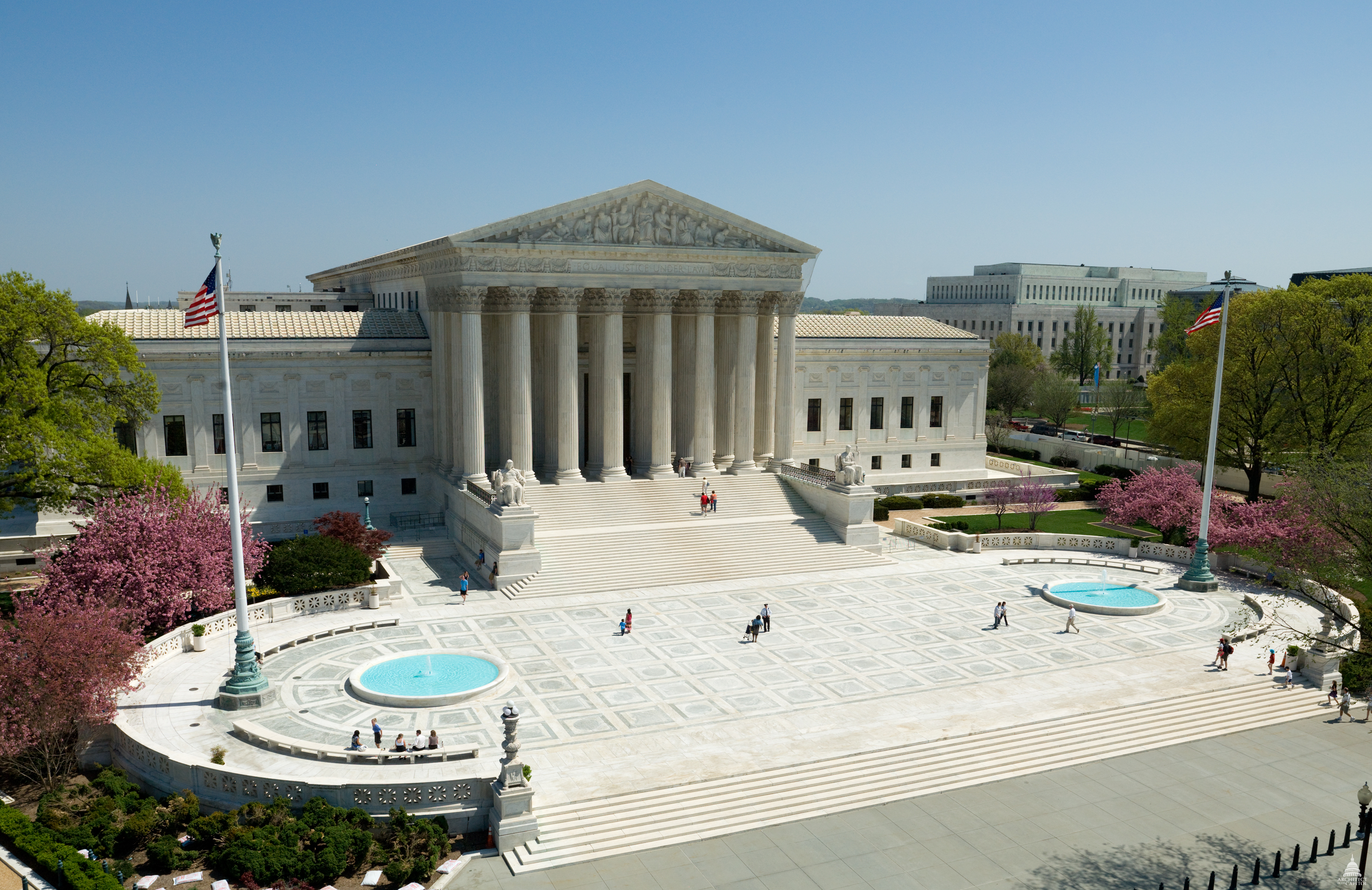 Finished and occupied in 1935, the design of the Supreme Court draws upon the classical Roman temple form, making it a definitive example of neoclassical architecture. For more information about the Supreme Court building visit: This official Architect of the Capitol photograph is being made available for educational, scholarly, news or personal purposes (not advertising or any other commercial use). When any of these images is used the photographic credit line should read “Architect of the Capitol.” These images may not be used in any way that would imply endorsement by the Architect of the Capitol or the United States Congress of a product, service or point of view. For more information visit